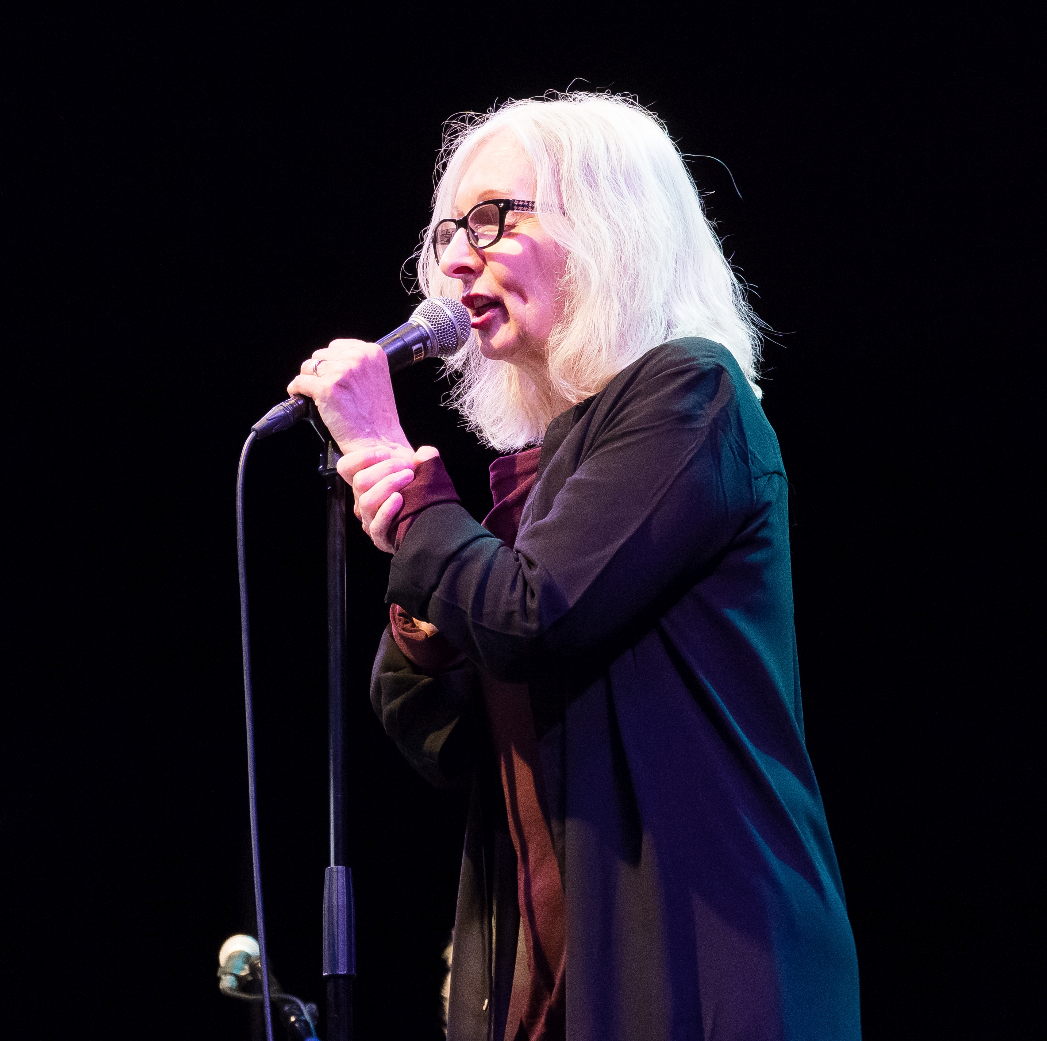 Dagmar Krause with Slapp Happy at Mt. Rainer Hall, Shibuya, Tokyo, 24 February 2017